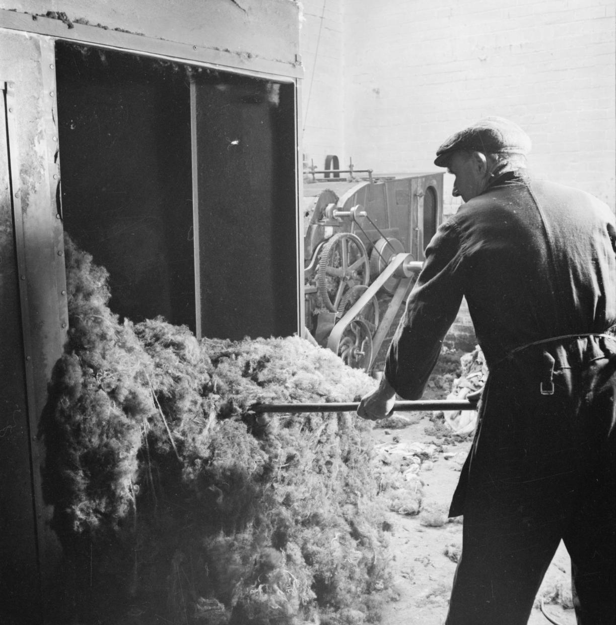 Old Rags Into New Cloth- Salvage in Britain, April 1942 A textile worker rakes newly-made 'shoddy' out of the "blow 'ole" (the receiving chamber of the rag grinding machine) at this factory somewhere in Britain. The shoddy will be combined with new wool to produce new cloth.